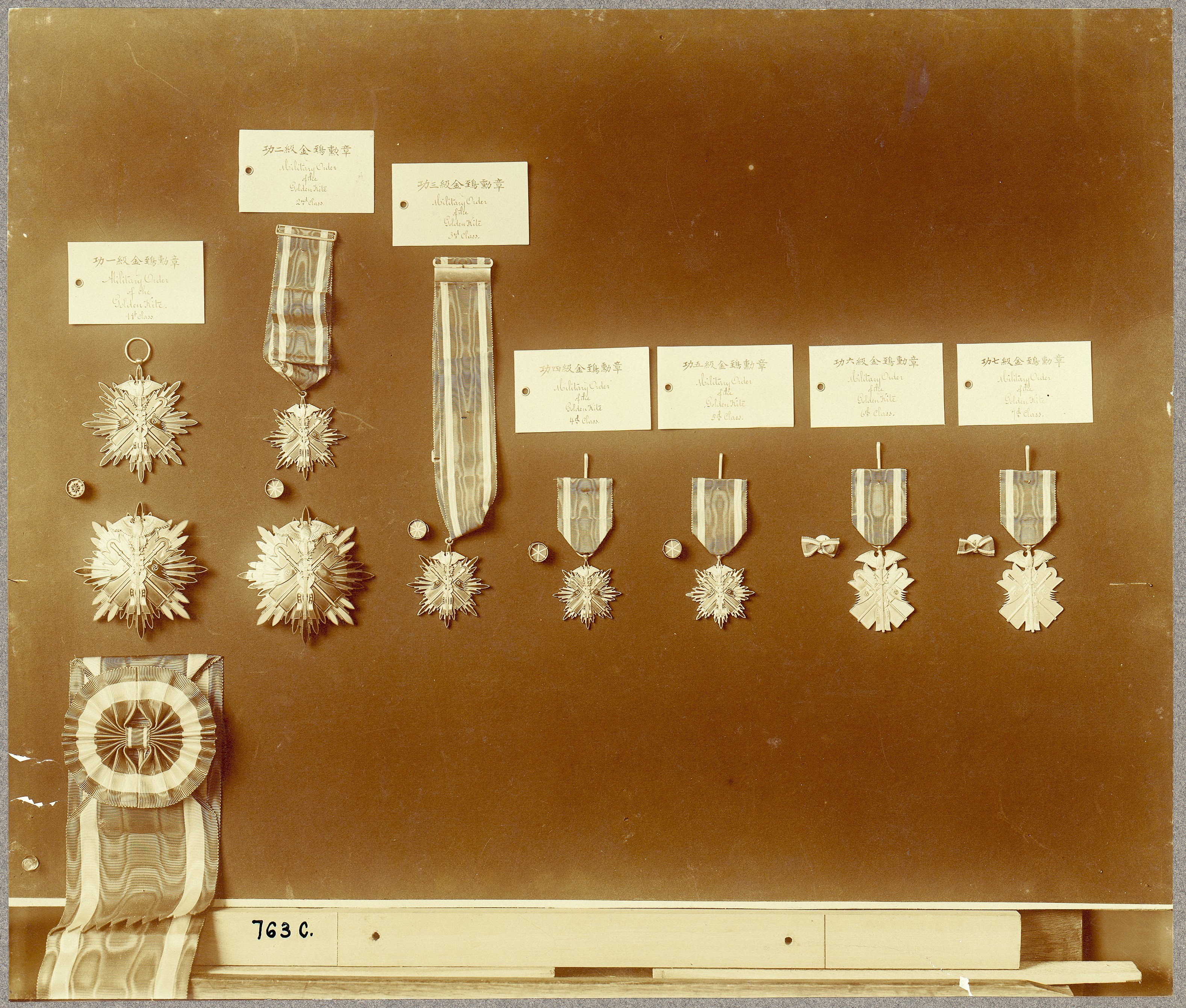 Photographs; Photographs